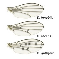 Artist rendition of wing variation in Drosophila quinaria species.